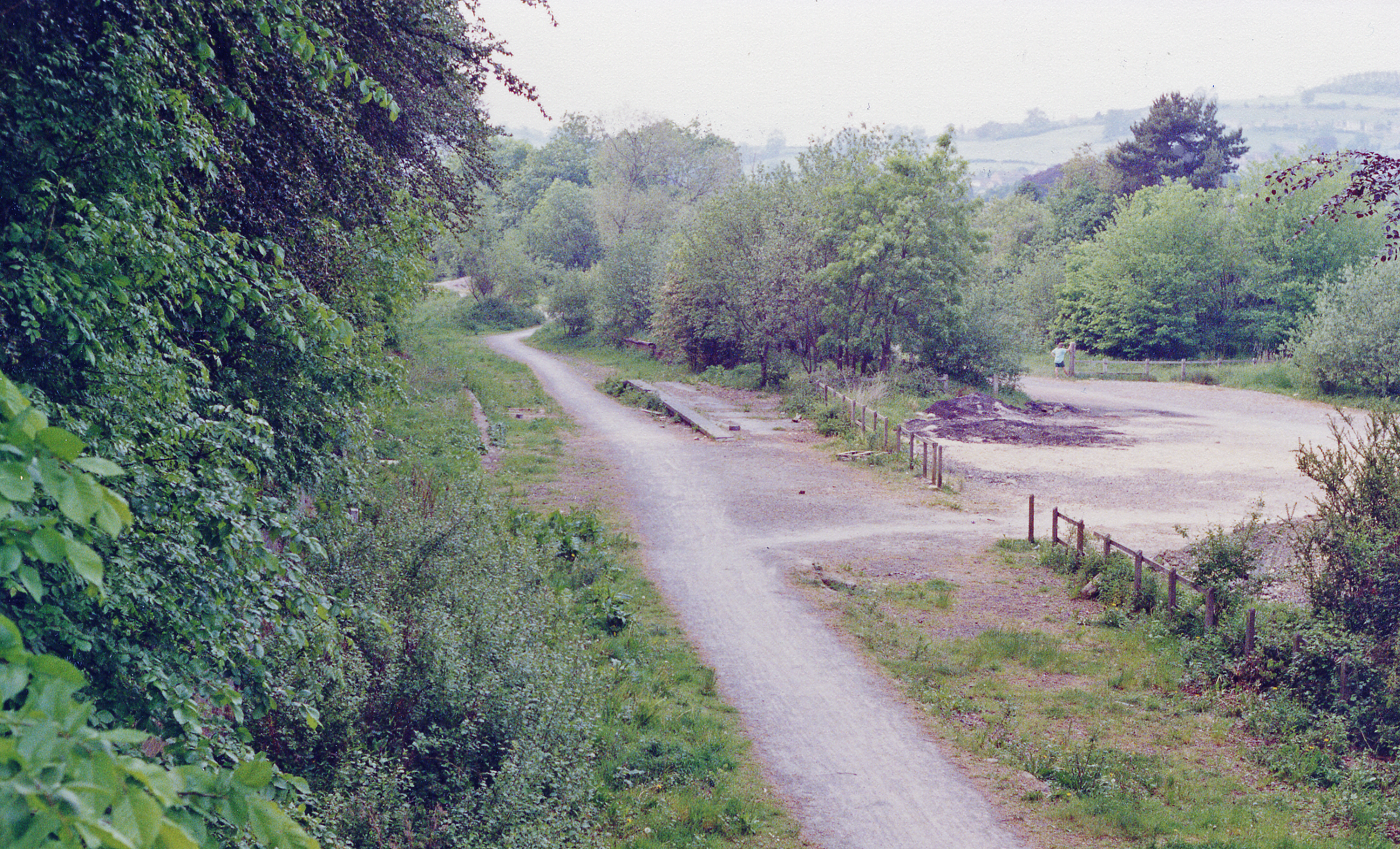 Dudbridge station (remains), 1990. View westward, towards Stonehouse: ex-Midland Stonehouse - Nailsworth branch, junction of branch to Stroud (Midland). The station and both branches were closed to passengers 16/6/47, to goods 1/6/66